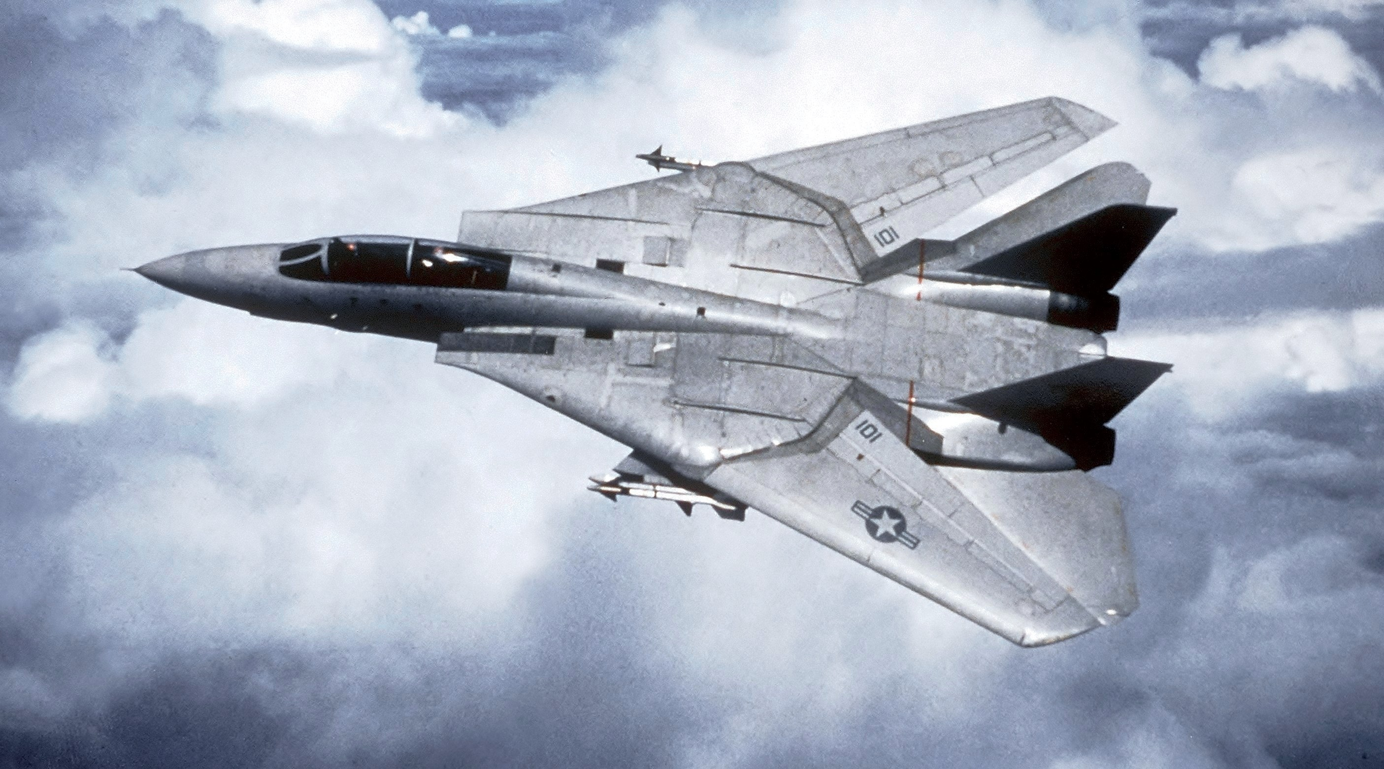 An air-to-air overhead view of a Fighter Squadron 1 (VF-1) F-14A Tomcat aircraft.